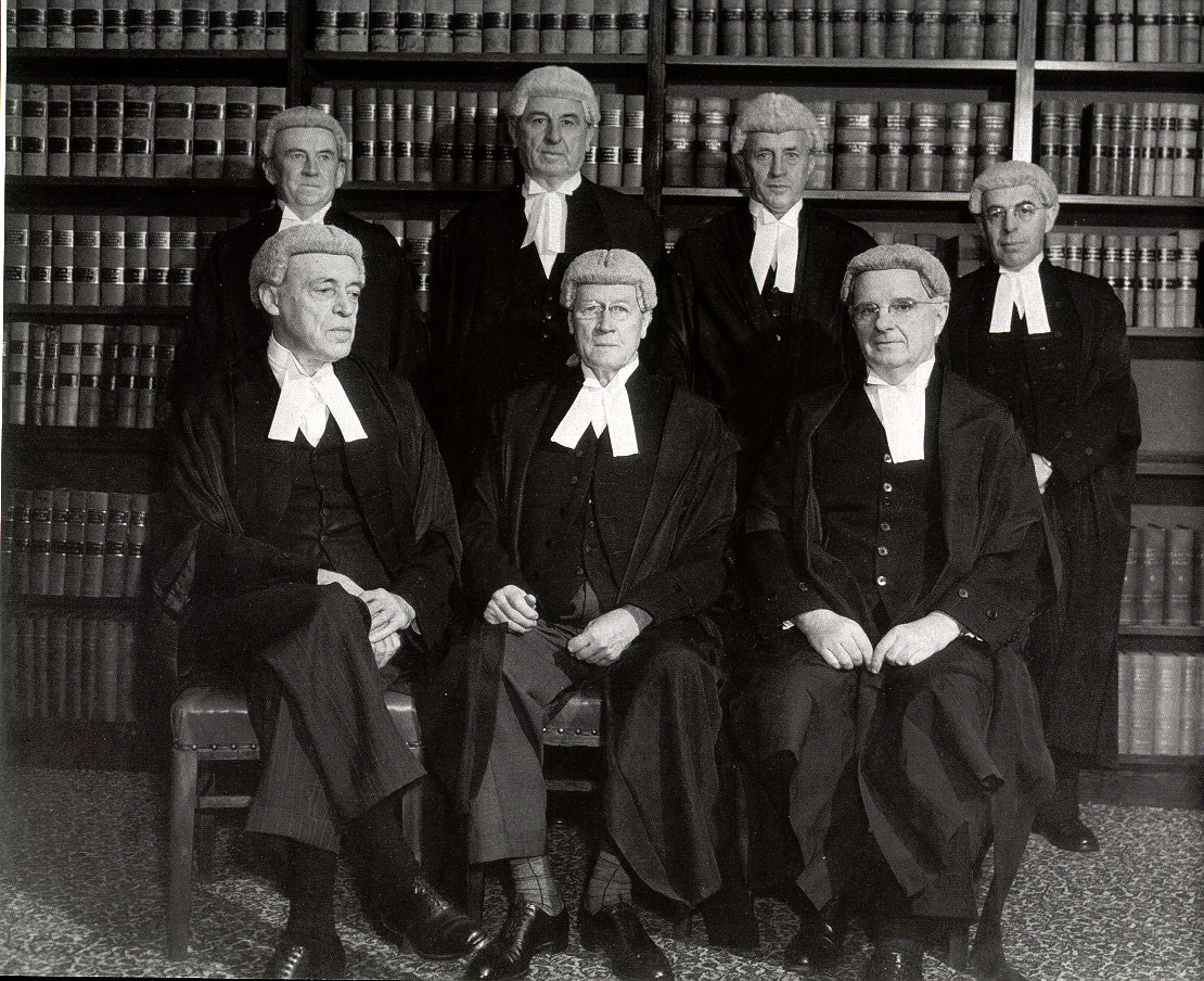 The Justices of the High Court of Australia, as photographed in 1952, shortly before the retirenemnt of John Latham as Chief Justice of Australia. Back (left to right): Wilfred Fullagar, William Webb, Dudley Williams, Frank Kitto. Front (left to right): Owen Dixon, John Latham, Edward McTiernan.